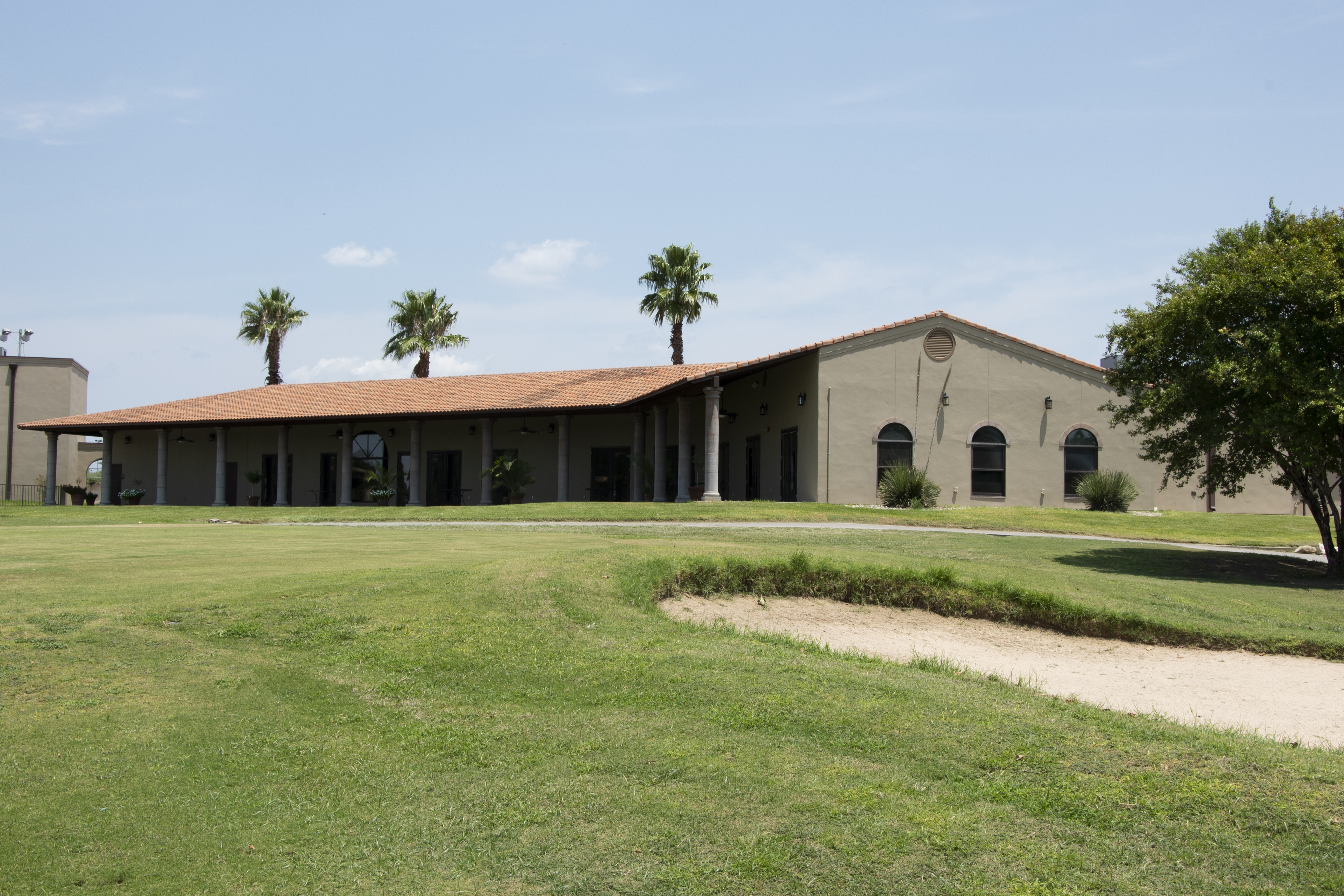 Multipurpose Facility